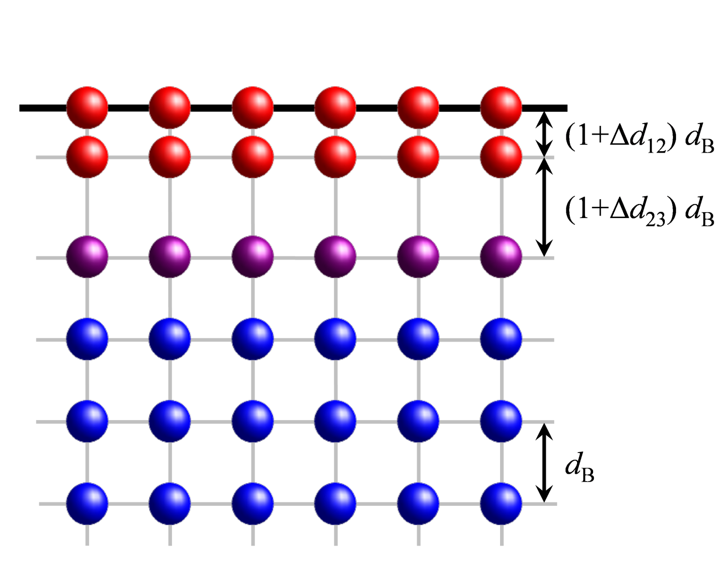 Surface relaxation of the atoms in a solid. The position of the surface layers of atoms (red) is changed relative to the bulk positions (blue).